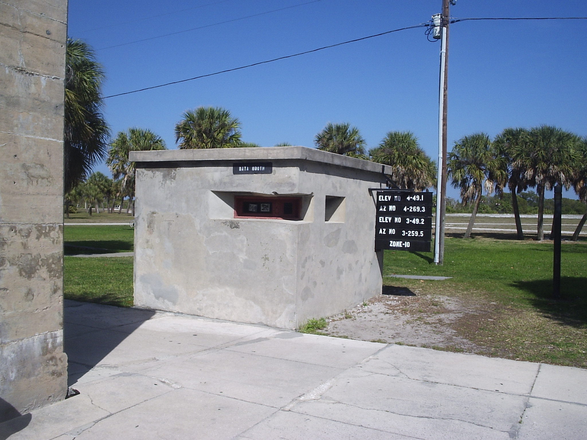 Taken by me at Fort Desoto Park, Pinellas County, Florida. Olympus Camedia D-395 digital camera. CC-BY-SA-2.5 Mikereichold 00:47, 17 March 2006 (UTC)